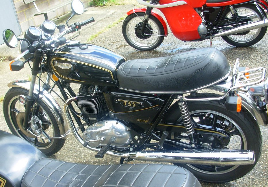 taken at the London Motorcycle Museum 2007